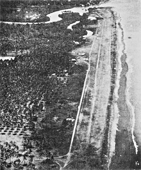 Two C-47 (Douglas R4D Skytrain), sits on the tarmac of Dipolog field as its squadron of bomber fighters went away for different bombing and air support missions.